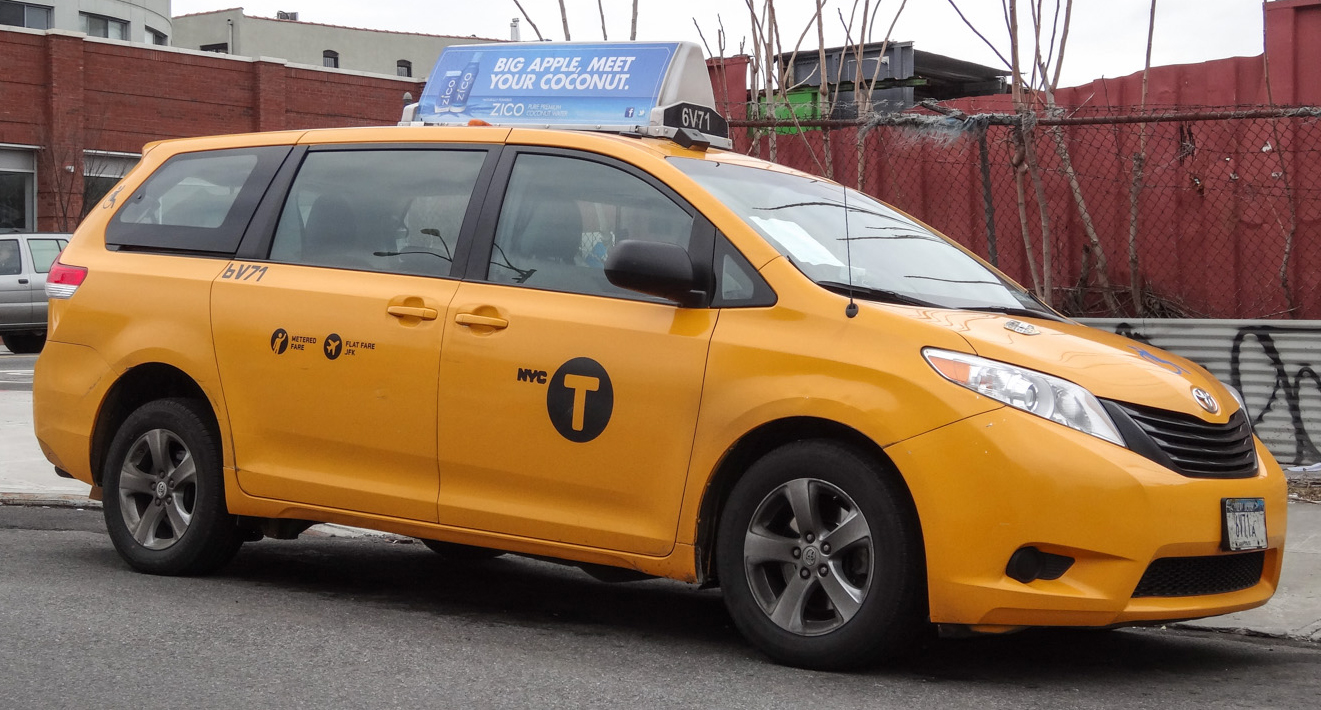 Toyota Sienna used as a NYC taxicab.